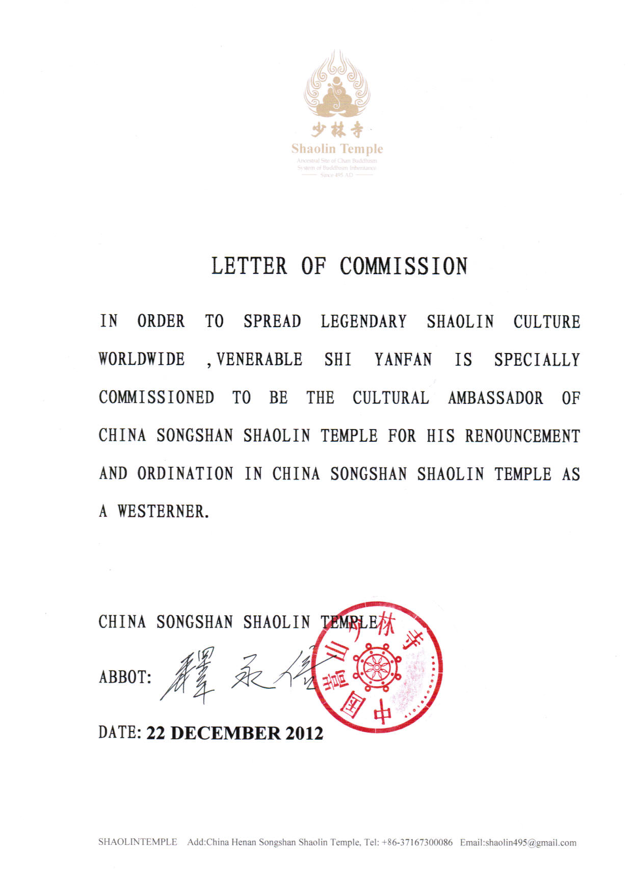 Official letter of Commission to appoint Venerable Shi Yanfan (Franco Testini) as Cultural Ambassador of Songshan Shaolin Temple of the Henan Province of China